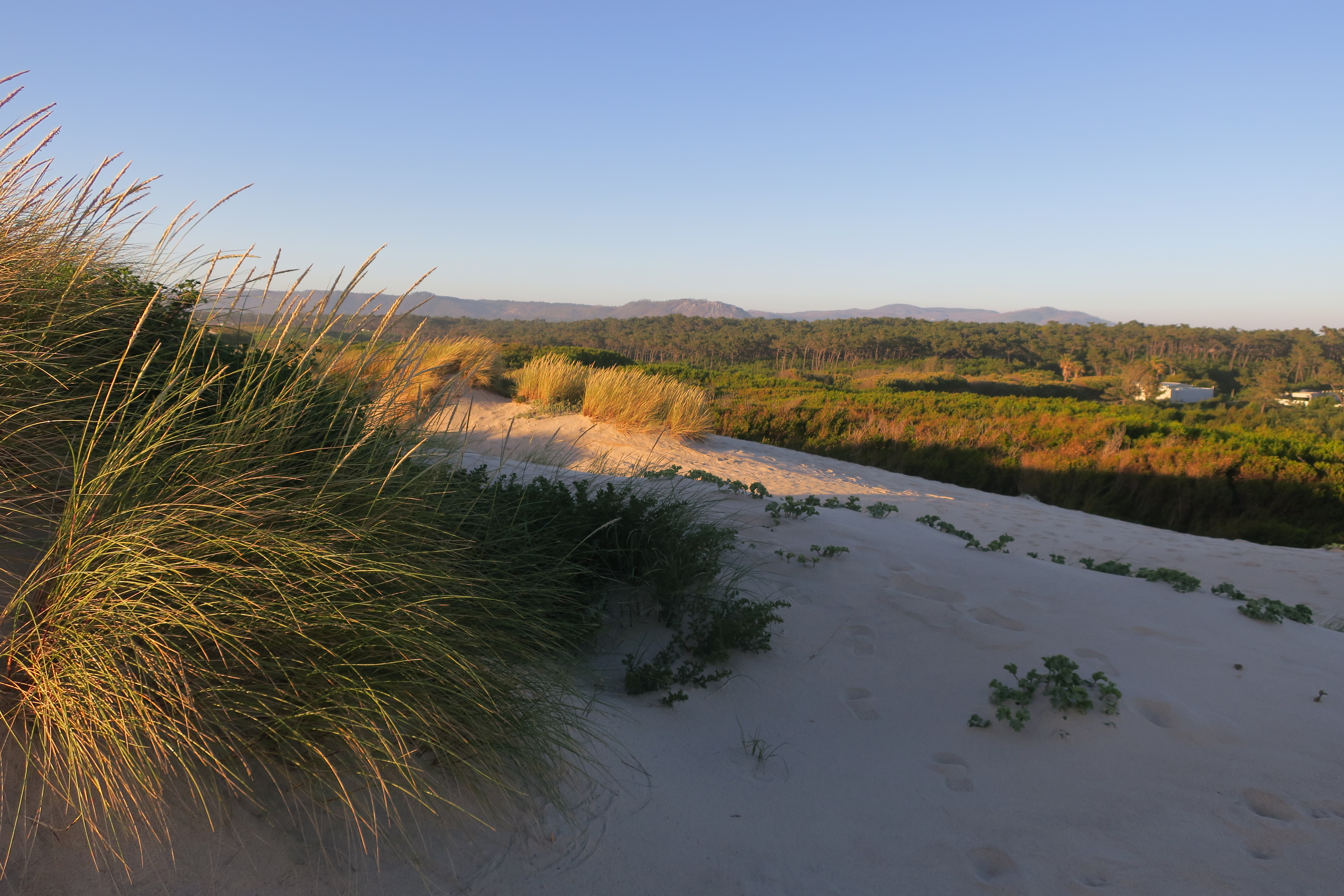 Maritime Pine forest in the Coastal Park in Ofir, Esposende